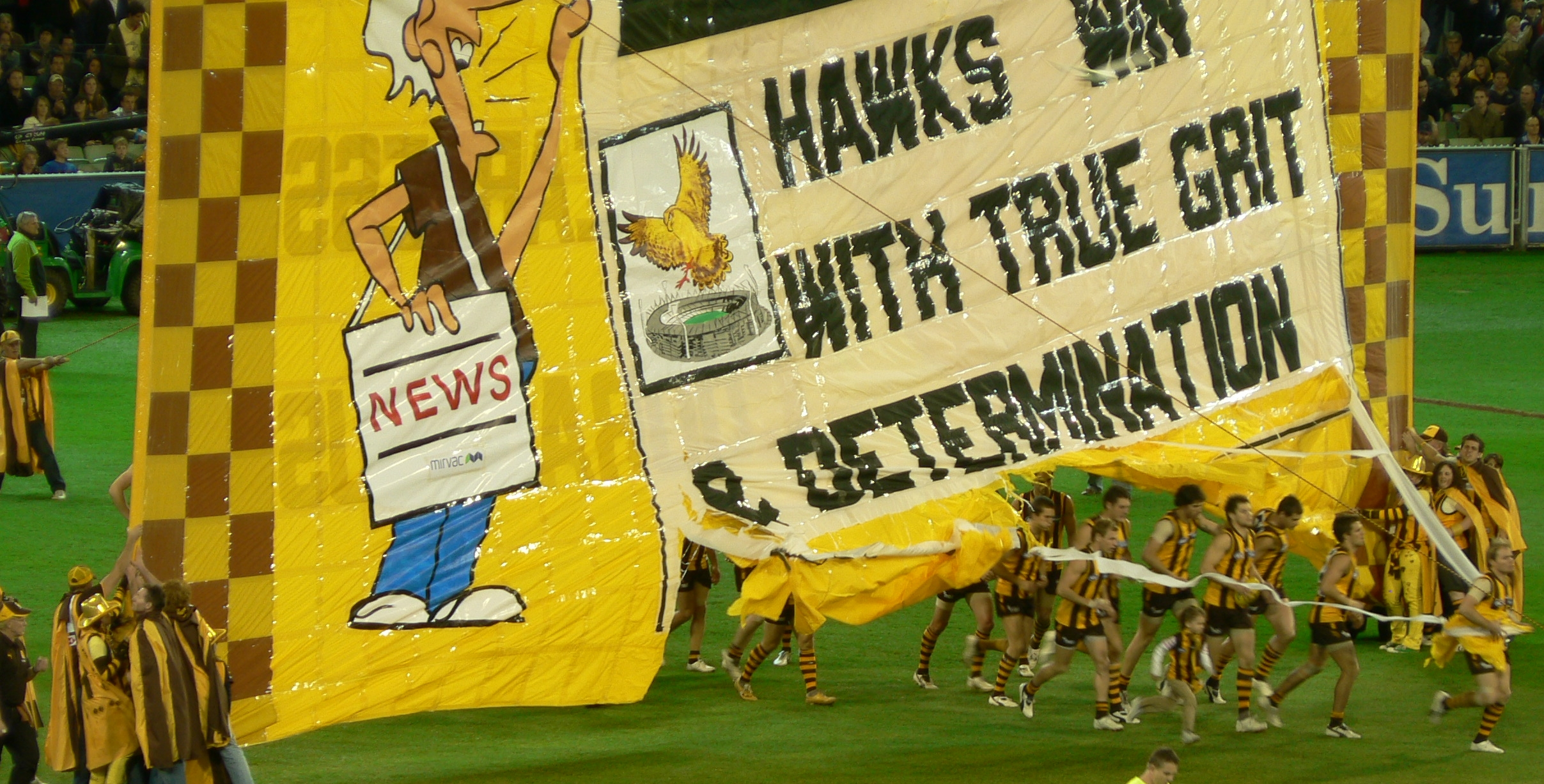 Hawks players run through the banner in the Qualifying Final against the Kangaroos, led by captain Richard Vandenberg in his final game.